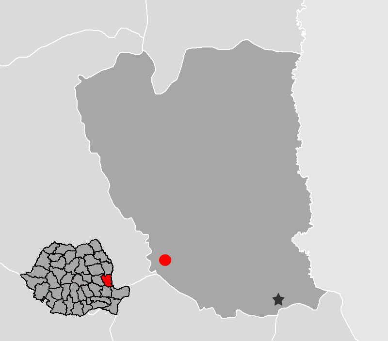 Location of Namoloasa in Galati, Romania